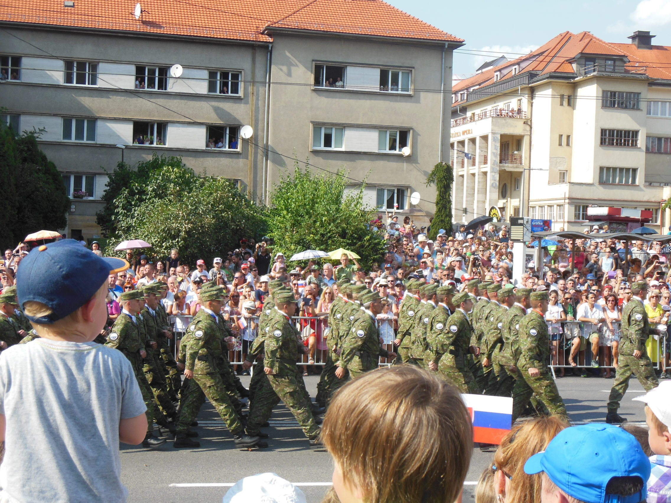 75th Anniversary of the Slovak National Uprising Celebrations in Banská Bystrica, Slovakia. Military parade at Štadlerovo nábrežie and Národná ulica.